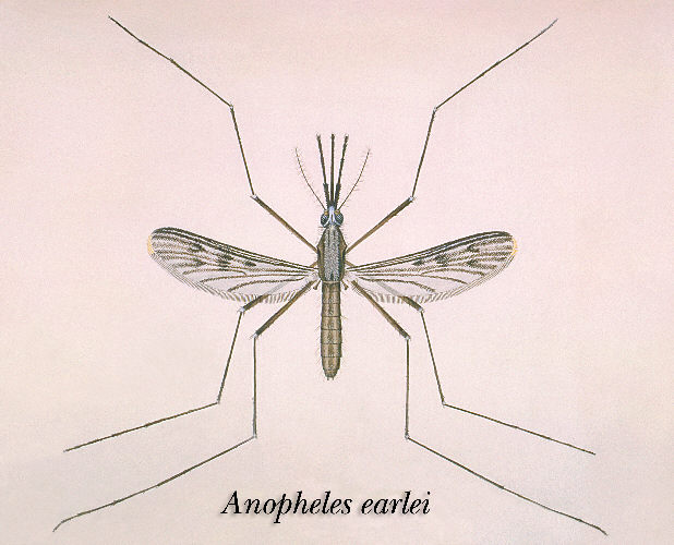 An illustration of an Anopheles earlei mosquito, with halteres visible. Anopheles earlei is found in woodland pools, bogs, marshes and along sluggish streams. The vector status of this species is unknown.